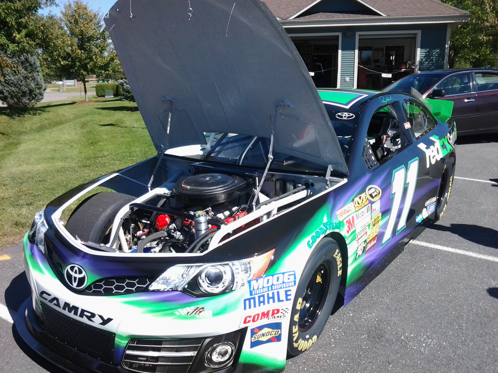 Front/side view of NASCAR racer Denny Hamlin's car with hood open.